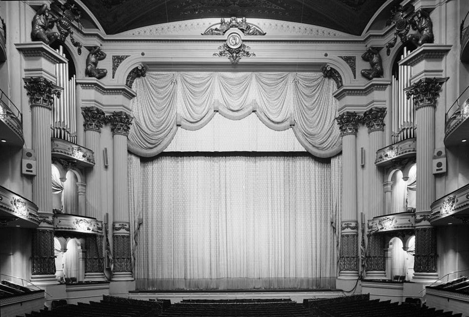 Proscenium of the Academy of Music, 232-46 S. Broad Street, Philadelphia, Pennsylvania (1855-57), Napoleon LeBrun and Gustavus Runge, architects, Joseph A. Bailly, interior ornament.